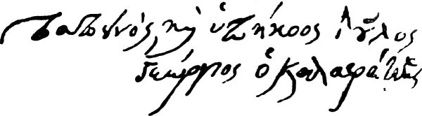 The signature of the Greek scholar Georgios Kalafatis (1652-1720)